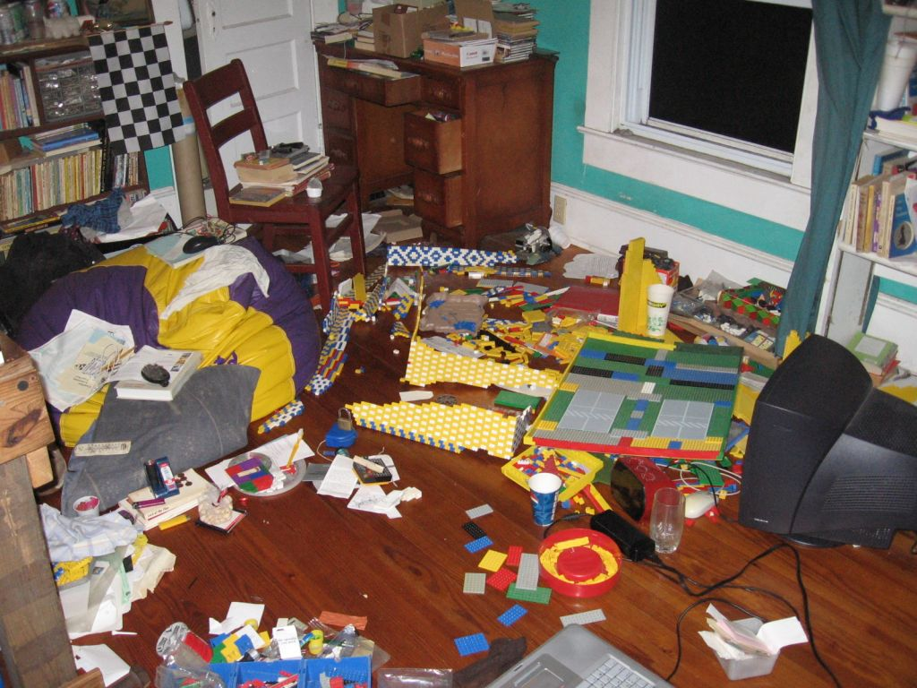 I've been working on the Lego thingy down here. all the stuff that used to go on the thingy temporarily moved to the floor.